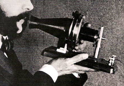 An actor portraying Alexander Graham Bell speaking into a early model of the telephone for a 1926 promotional film by the American Telephone & Telegraph Company (AT&T): see 1926 recreation of Alexander Graham Bell inventing the telephone. AT&T Archives. Archived from the original on 22 June 2011. Retrieved on 22 June 2011.